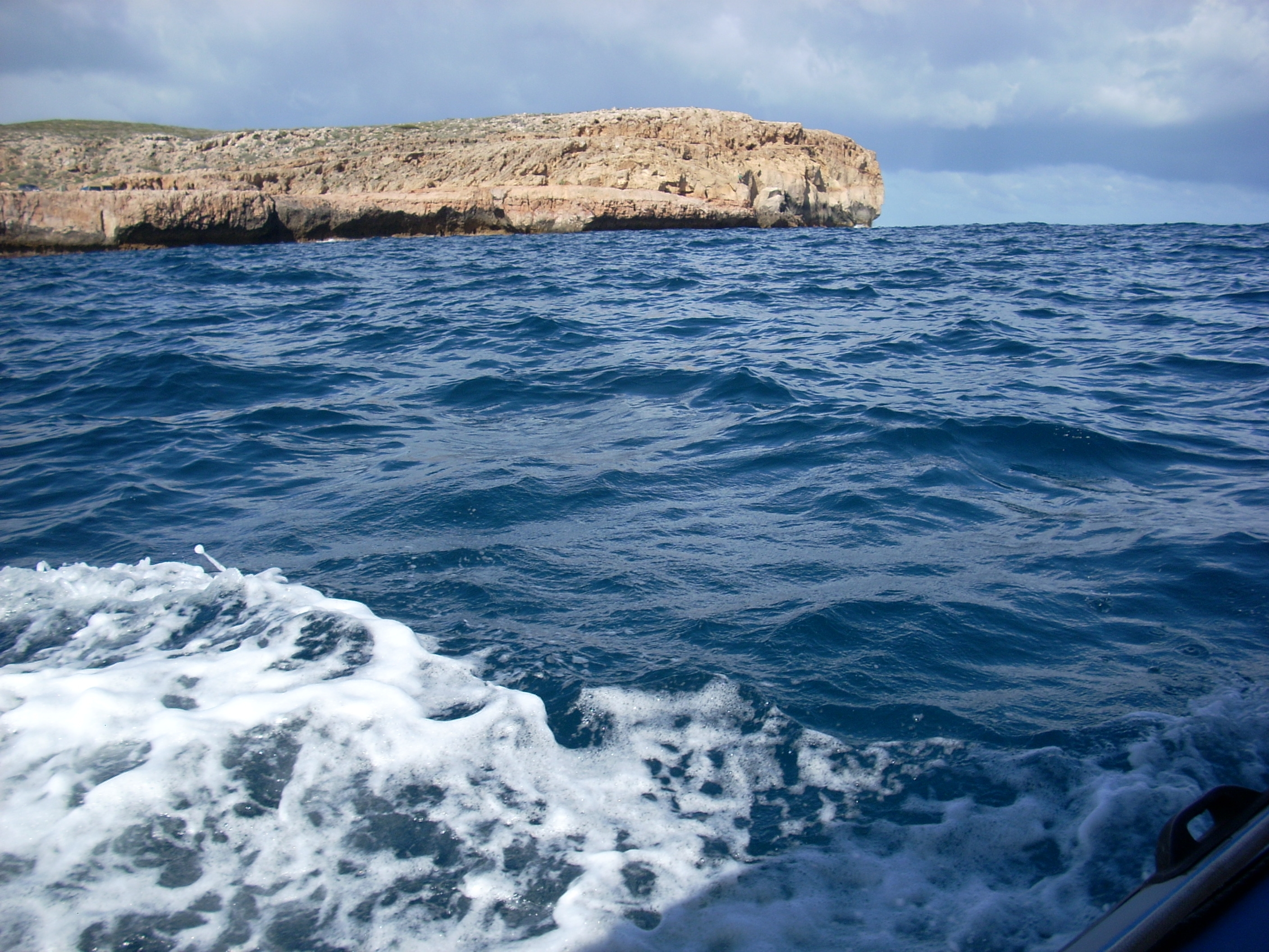 Steep Point in Shark Bay region of Western Australia, the western most point of the Australian mainland, taken from the north east